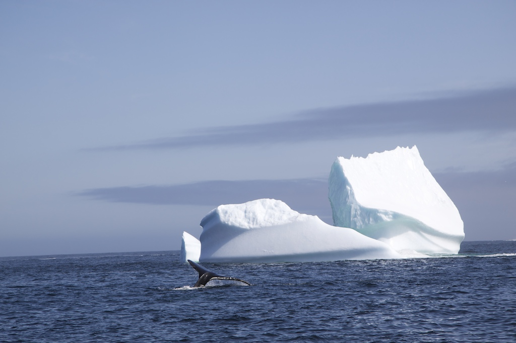 A humpback whale tail and iceberg in Labrador, Canada.